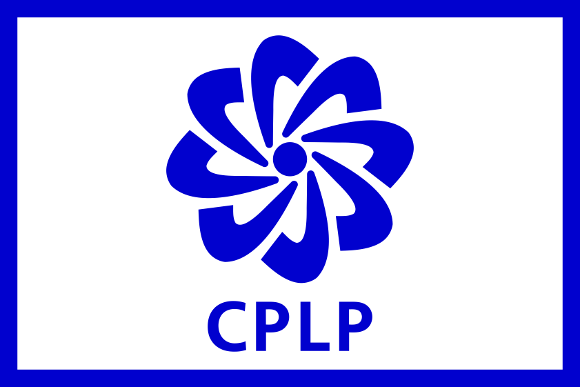 Flag CPLP